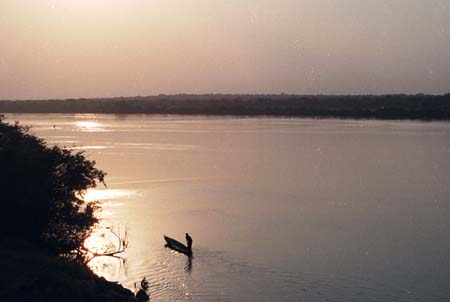 A canoe on the Niger River at sunset, Guinea